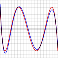 This image was made as a .bmp file by a program modified from the one provided by User:Cyp, and then converted to .png format with the Gimp 2.2.10 file converter.